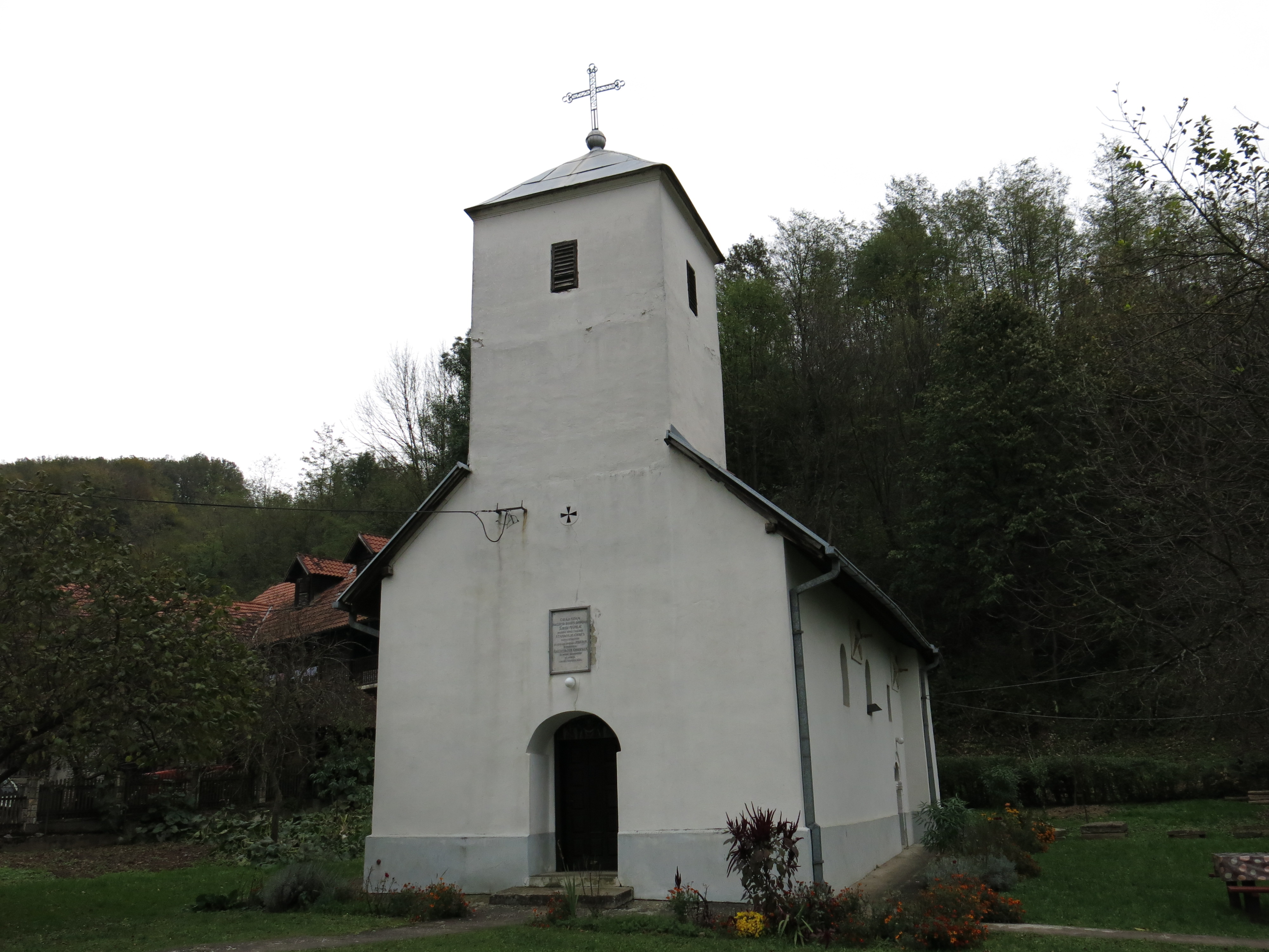 Gornji Banjani, Church of the Nativity of Mary